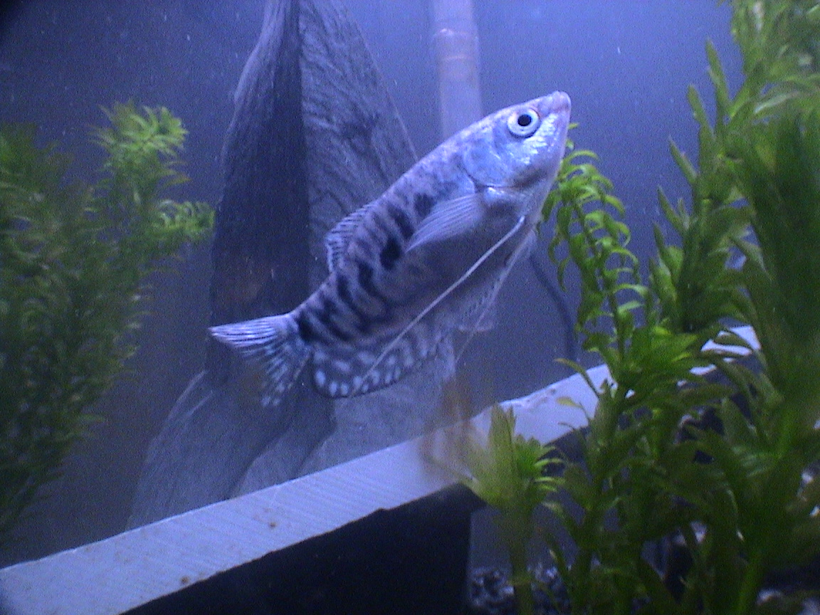 An opaline gourami from my aquarium, named after hobo no. 295 for his inquisitive personality.